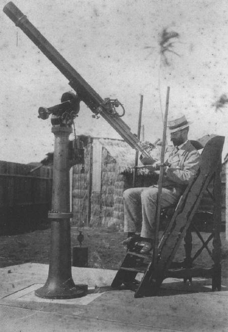 "George Lyon Tupman, head of the 1874 transit of Venus expedition in Hawaii, at the telescope". Figure 9 reproduced in Chauvin, Michael E. 1993. Astronomy in the Sandwich Islands: The 1874 Transit of Venus. The Hawaiian Journal of History 27: 215.